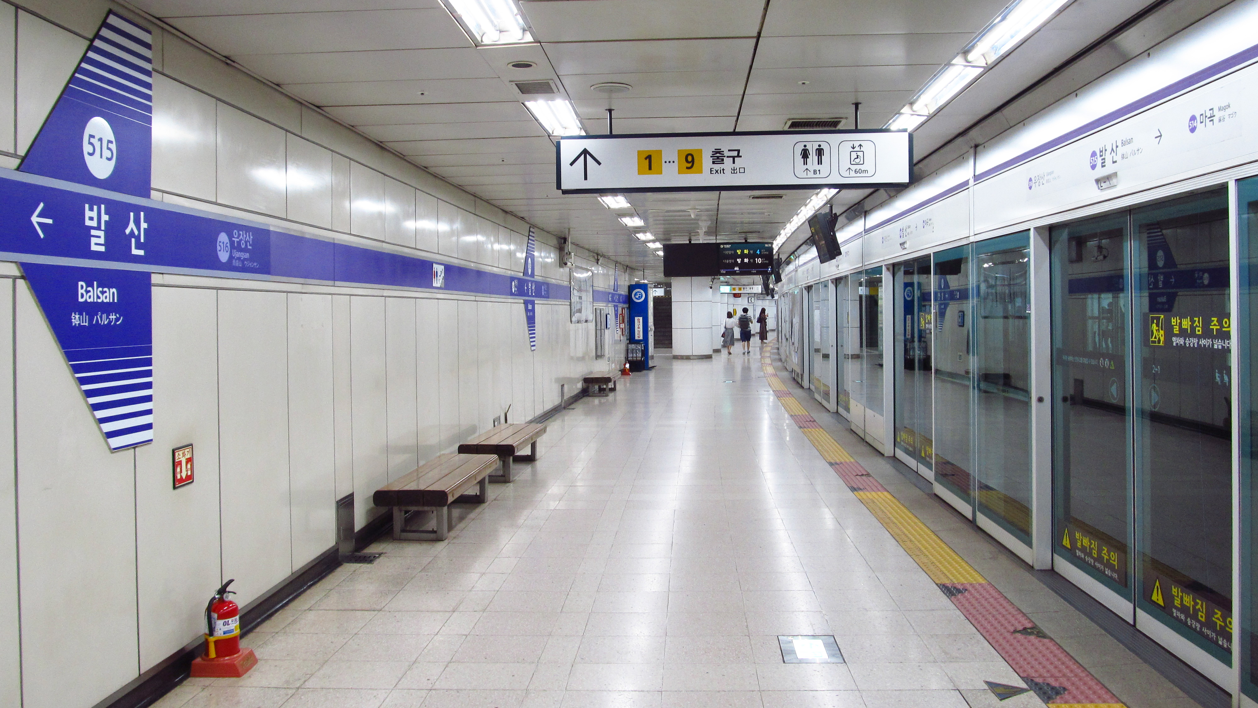 The platform at Balsan Station on Seoul Subway Line 5 in Gangseo-gu, Seoul, Republic of Korea(South Korea)